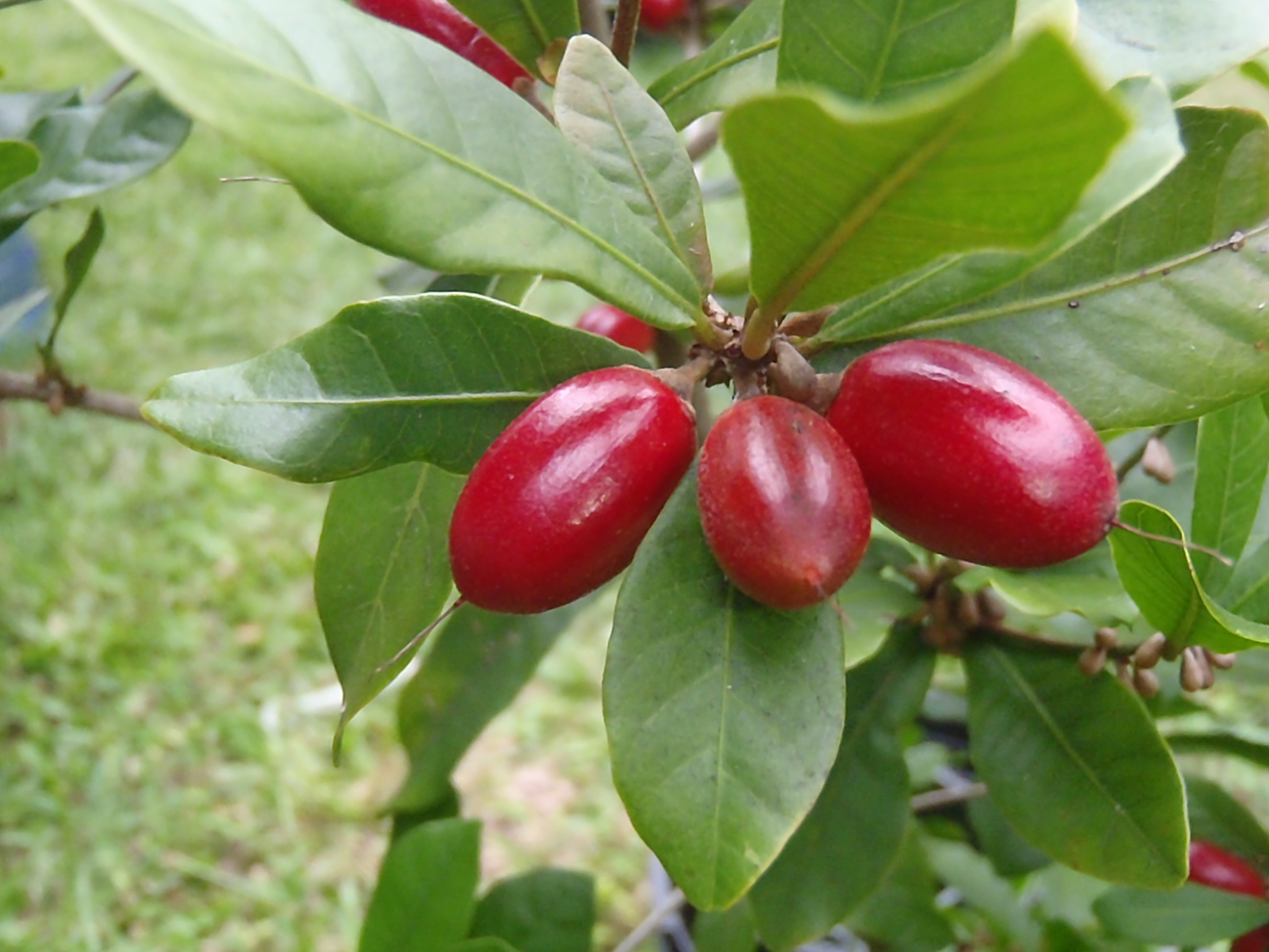 Photo of Miracle berry